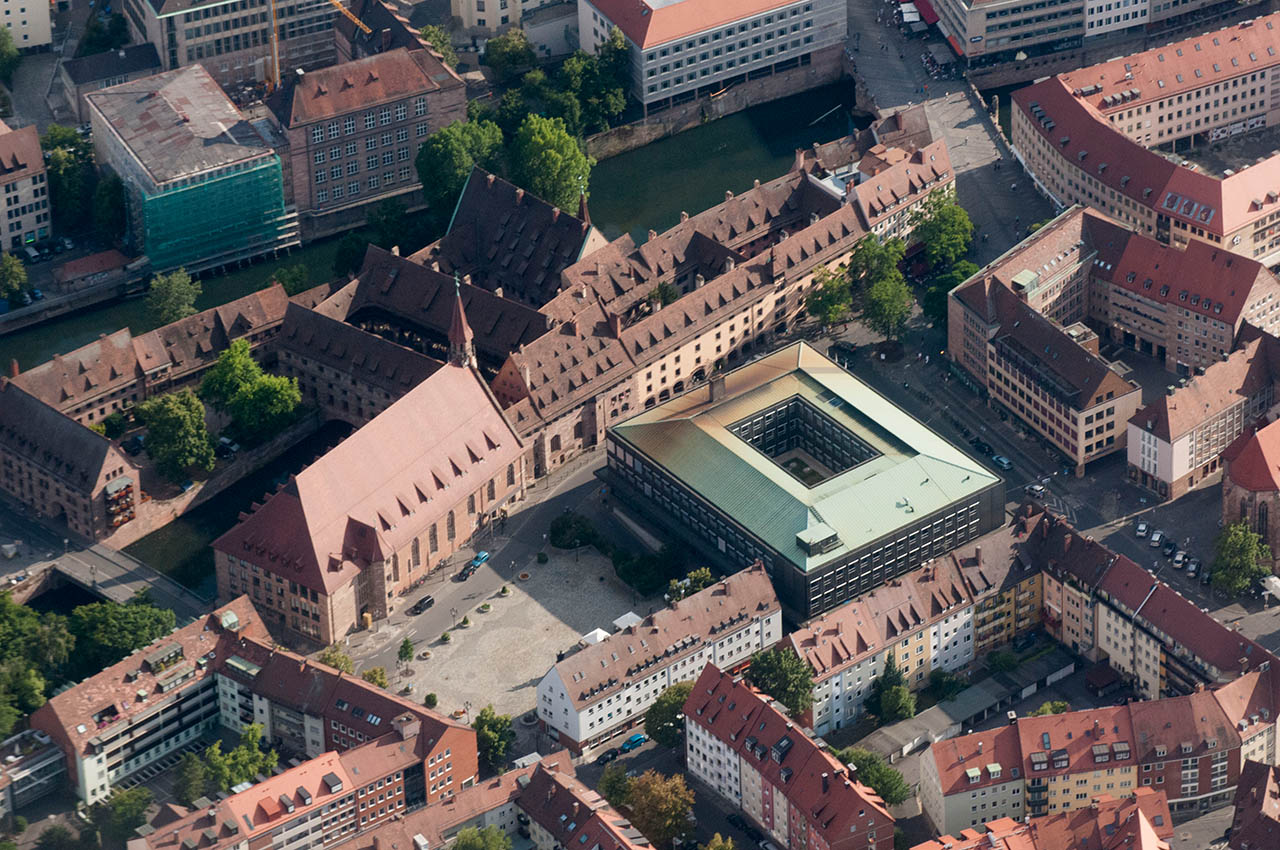 Aerial photography of the Heilig Geist Spital in Nuremberg, Germany